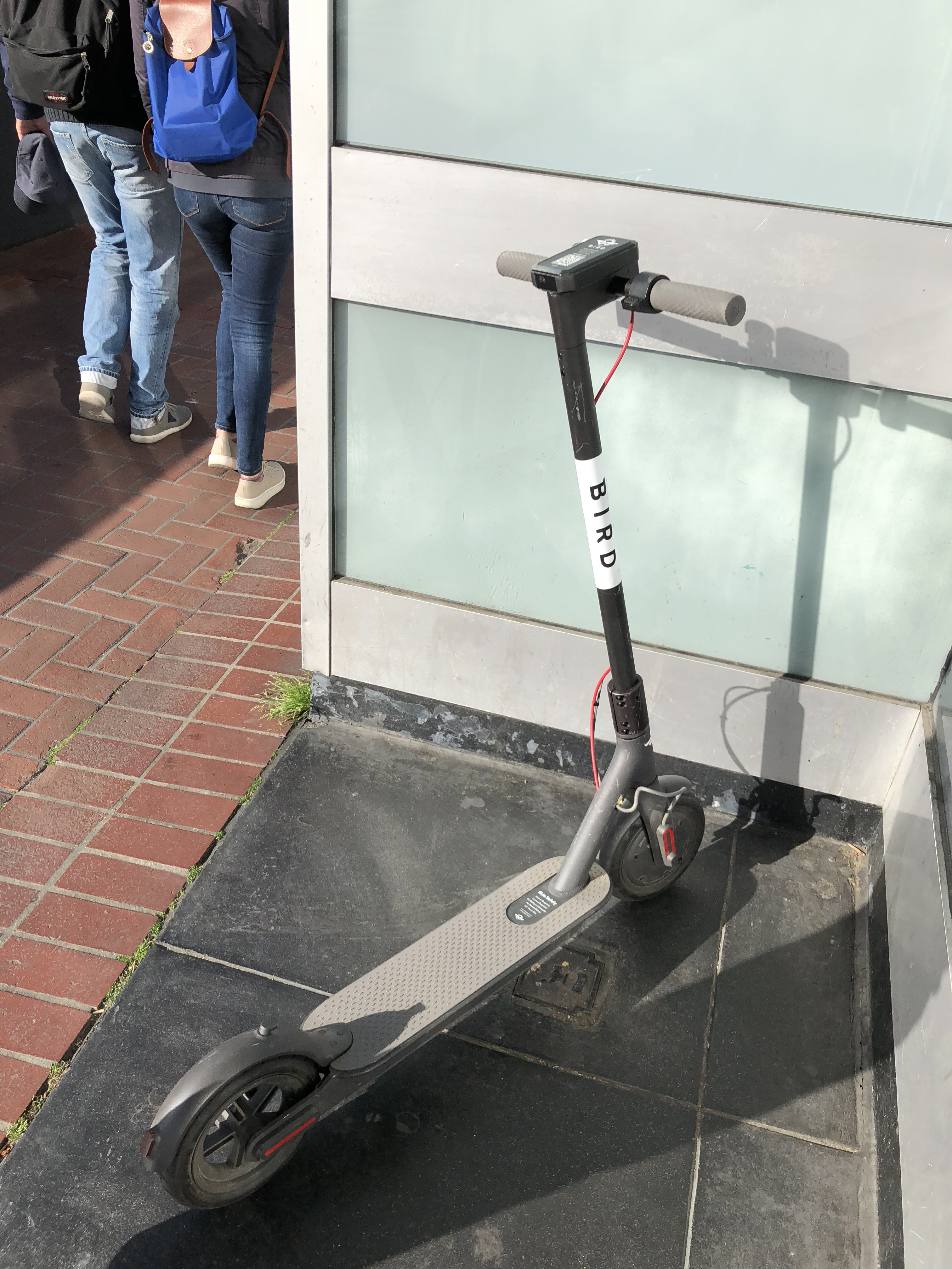 Bird Scooter in San Francisco